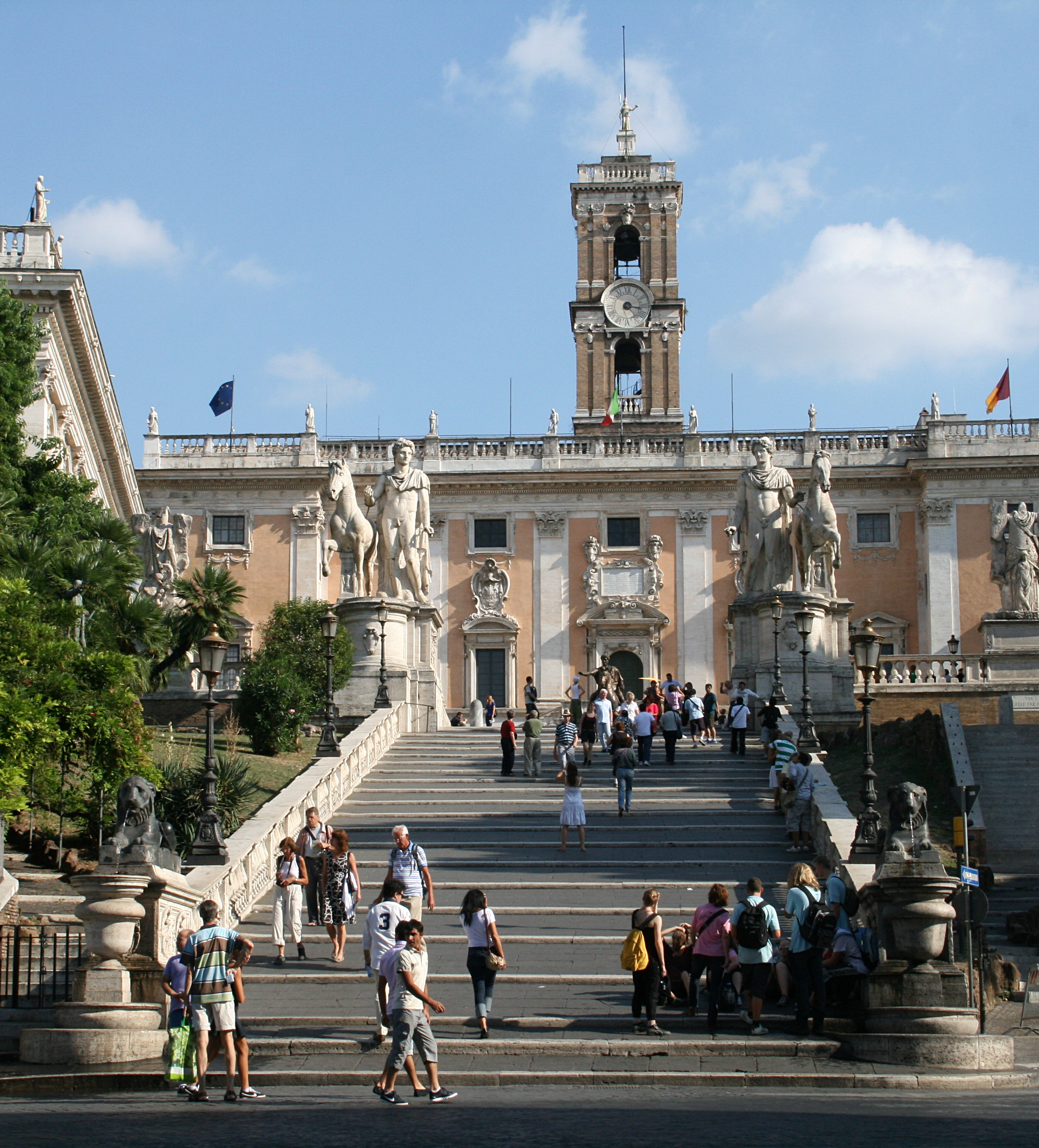 The Cordonata, the Dioscuri, and the Palazzo Senatori in Rome.